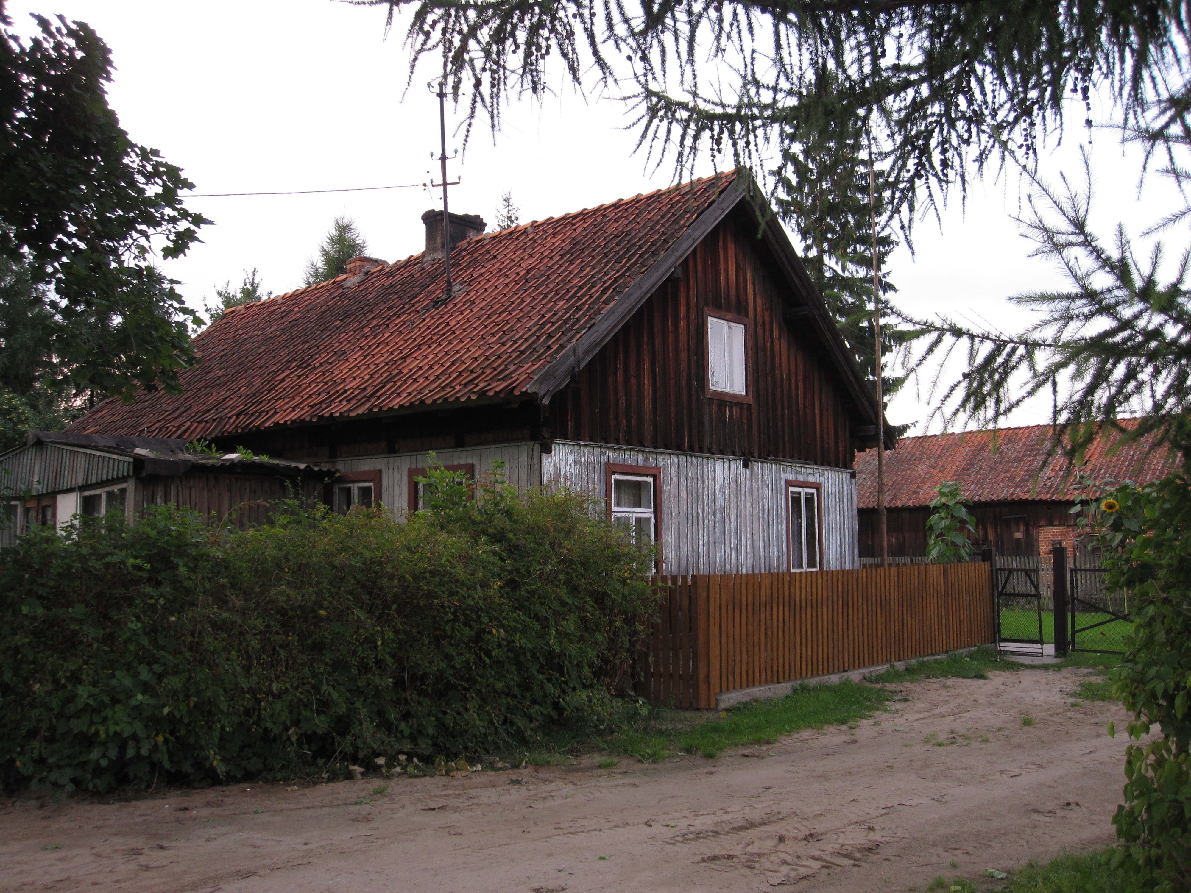 Building No. 19 in Mojtyny